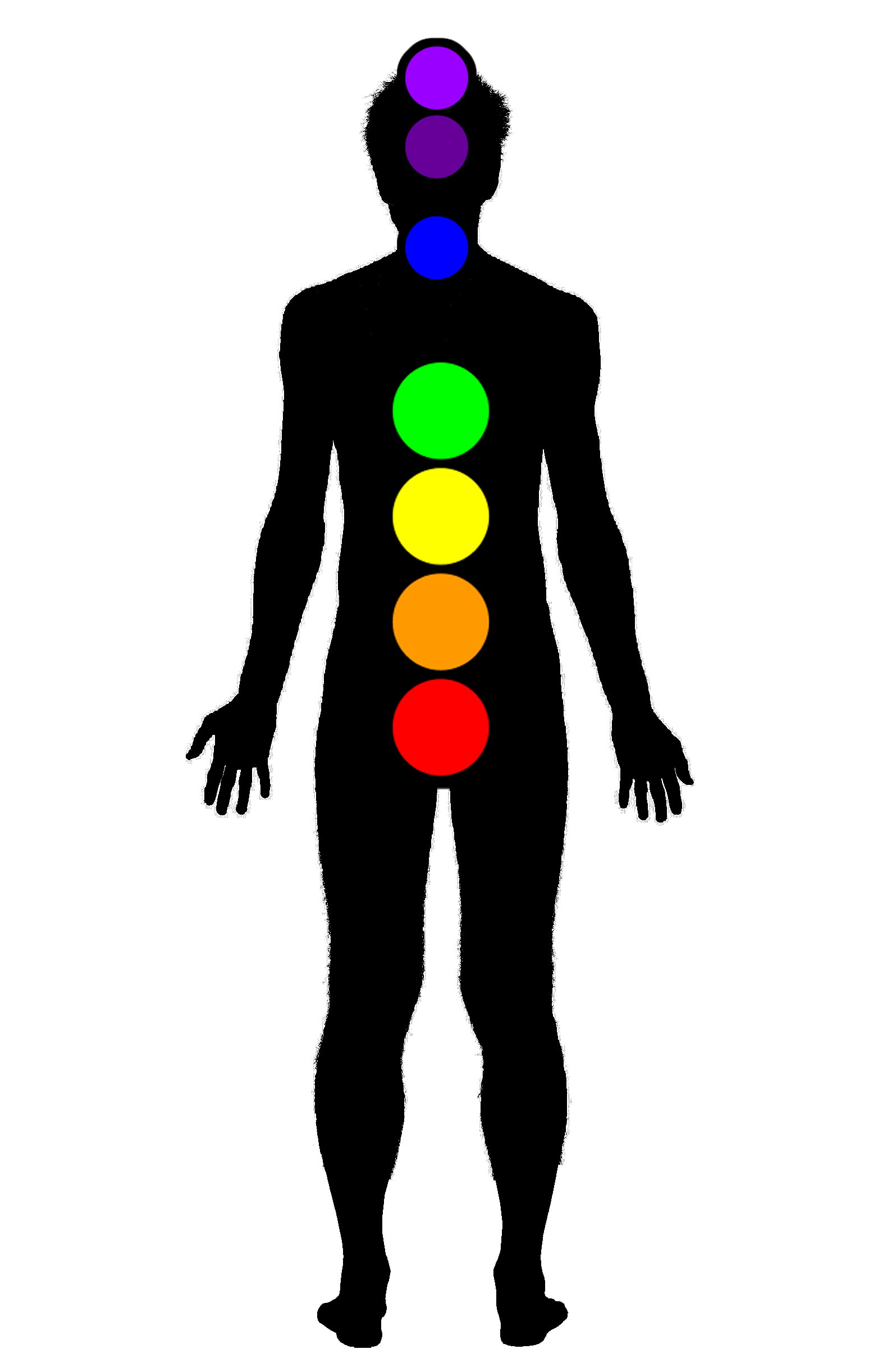 Human silhouette with chromotherapy chakra colours marked.